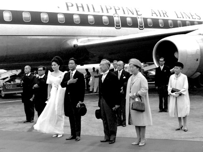 then-President Ferdinand Marcos of the Philippines visits Japan and is received by His Imperial Majesty the Showa Emperor (Emperor Hirohito)